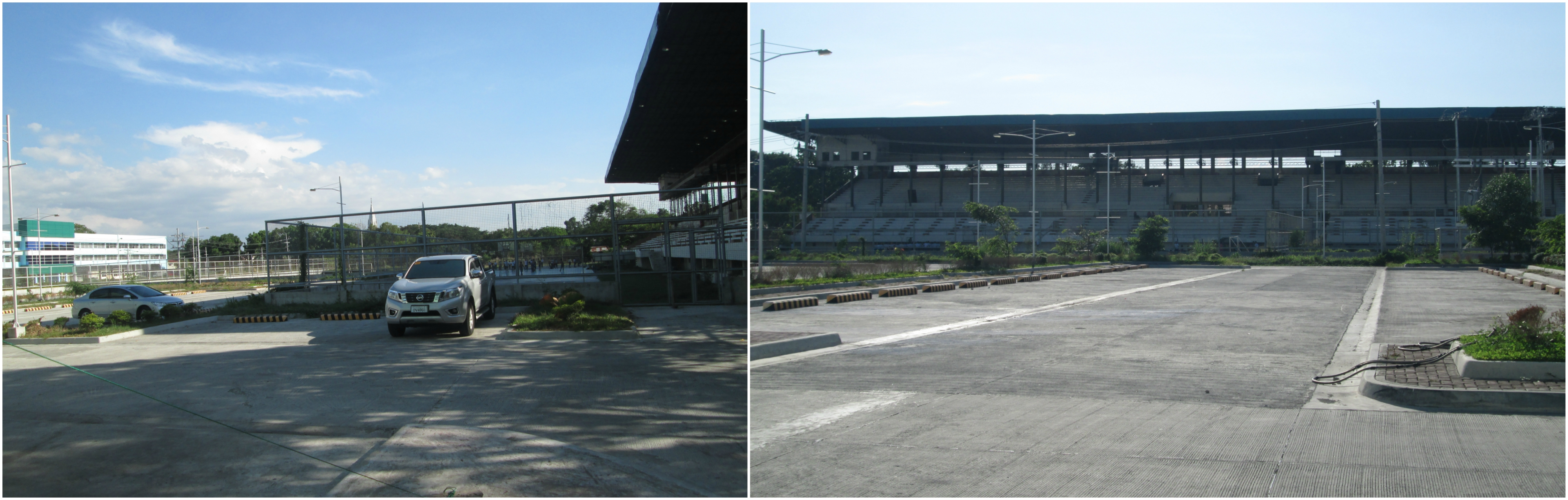 Inside view of Paglaum Sports Complex